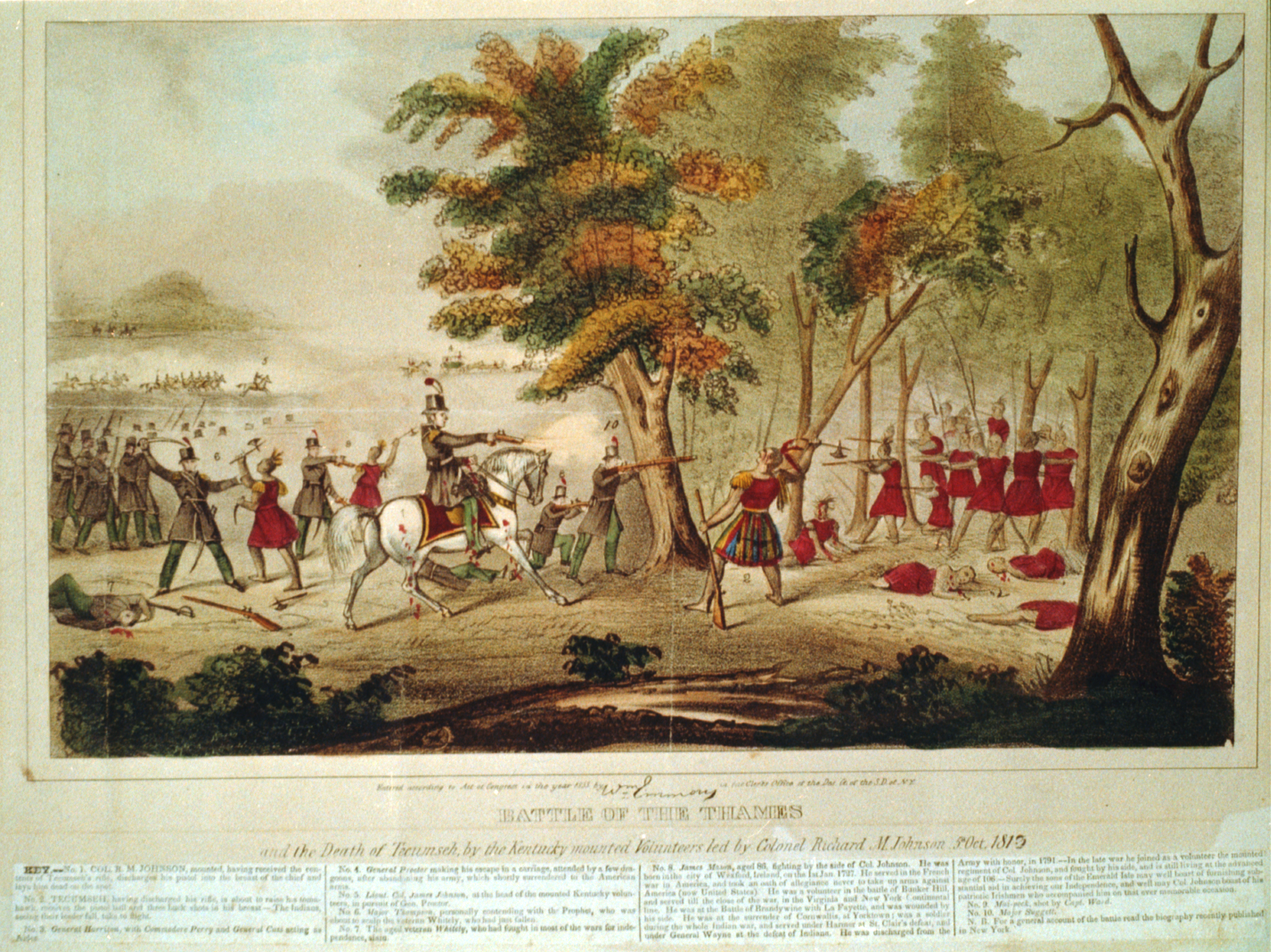 Battle of the Thames and the death of Tecumseh, by the Kentucky mounted volunteers led by Colonel Richard M. Johnson, 5th Oct. 1813. Lithograph, hand coloured.